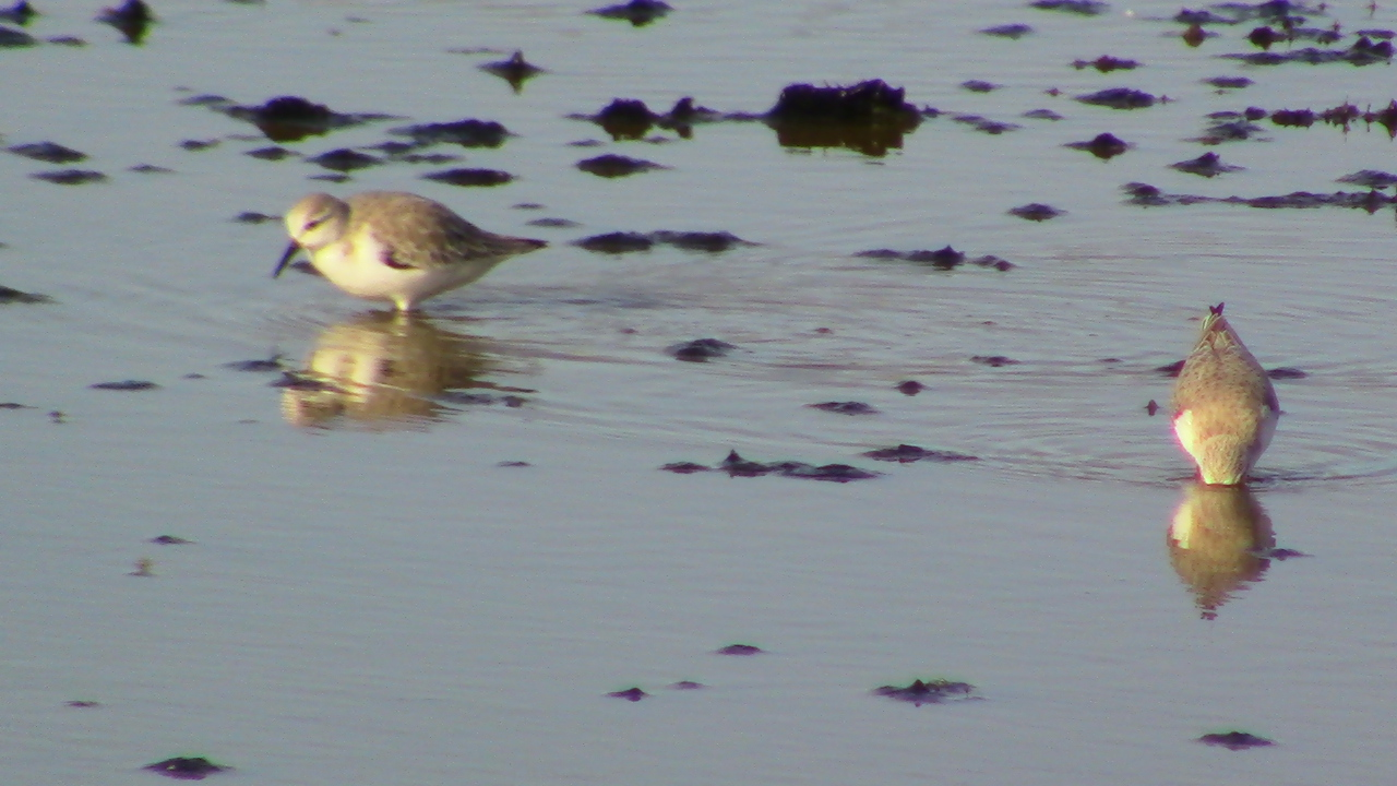 Sidi Moussa Lagoon Nature Preserve - View